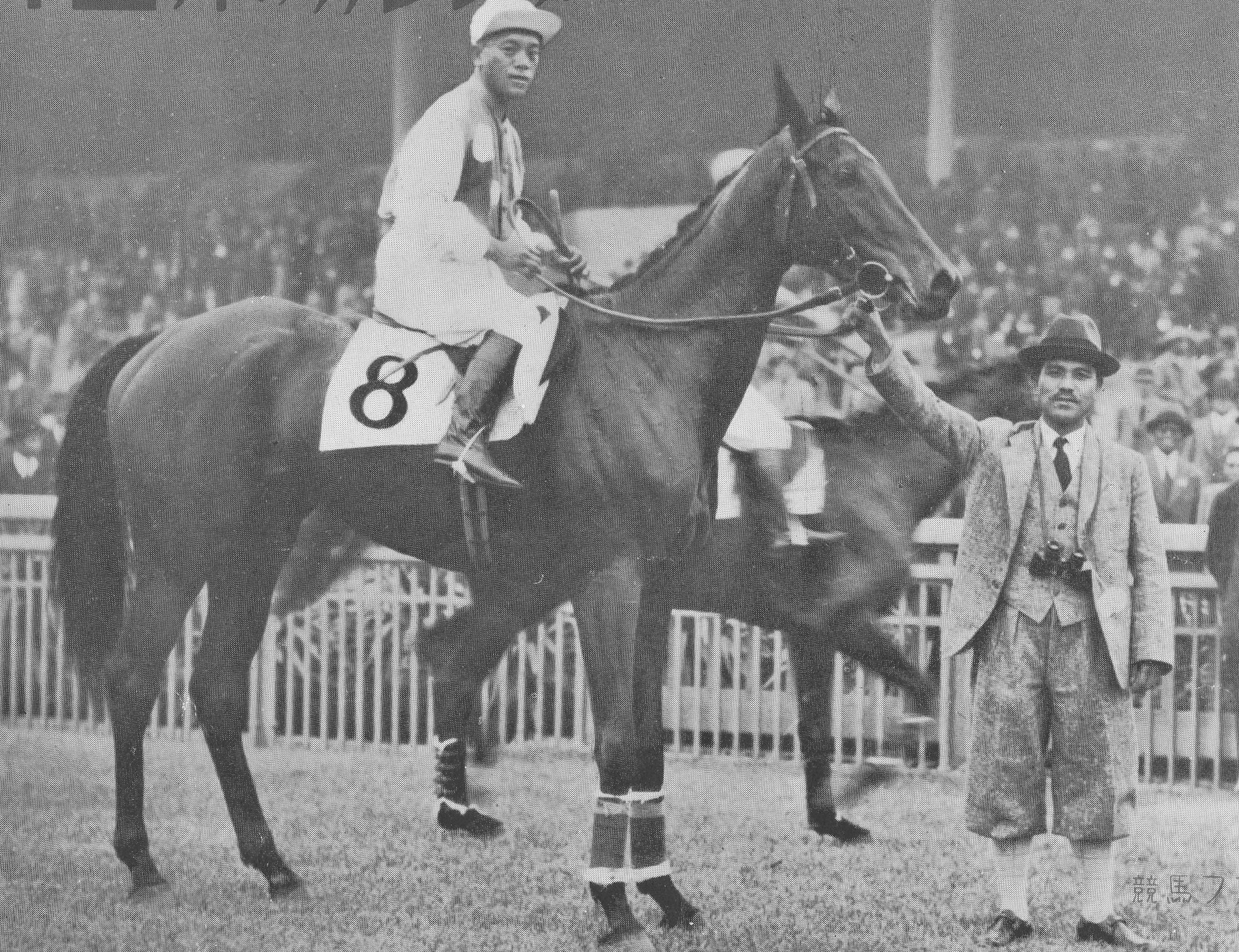 Kokuo(horse)